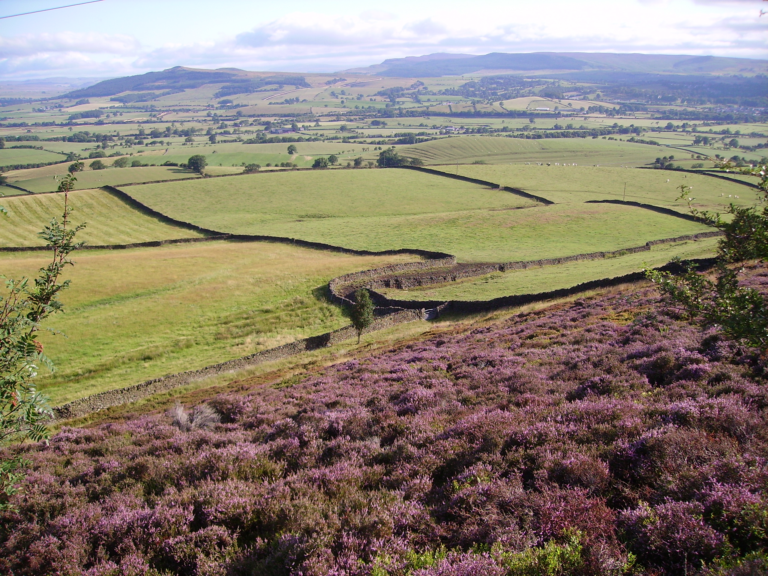 Heather in North Yorkshire, United Kingdom